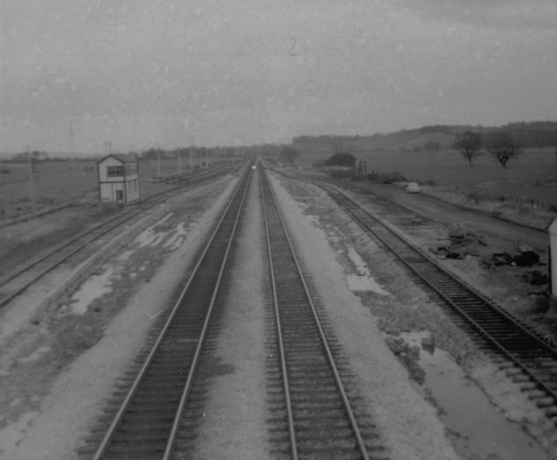 The site of Exminster station looking away from Exeter.